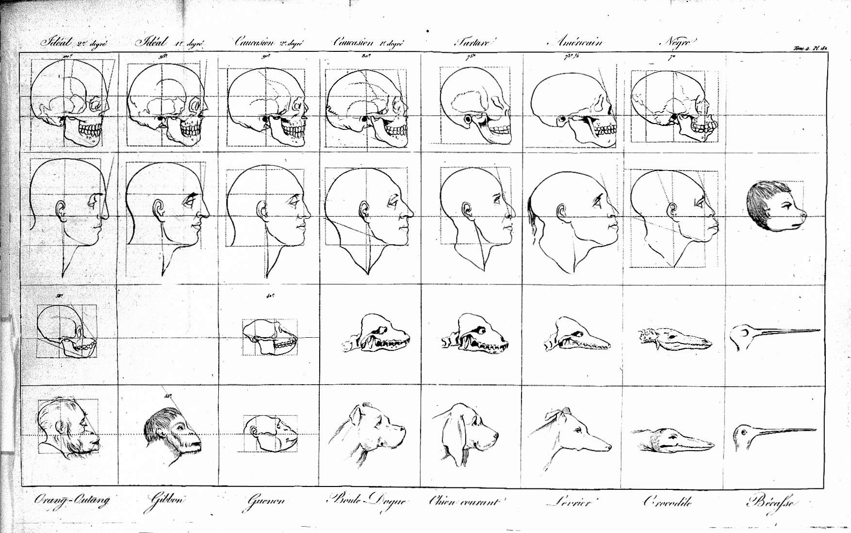 Faces demonstrating points of physiognomy. Rare Books Keywords: Lavater, Johann Caspar